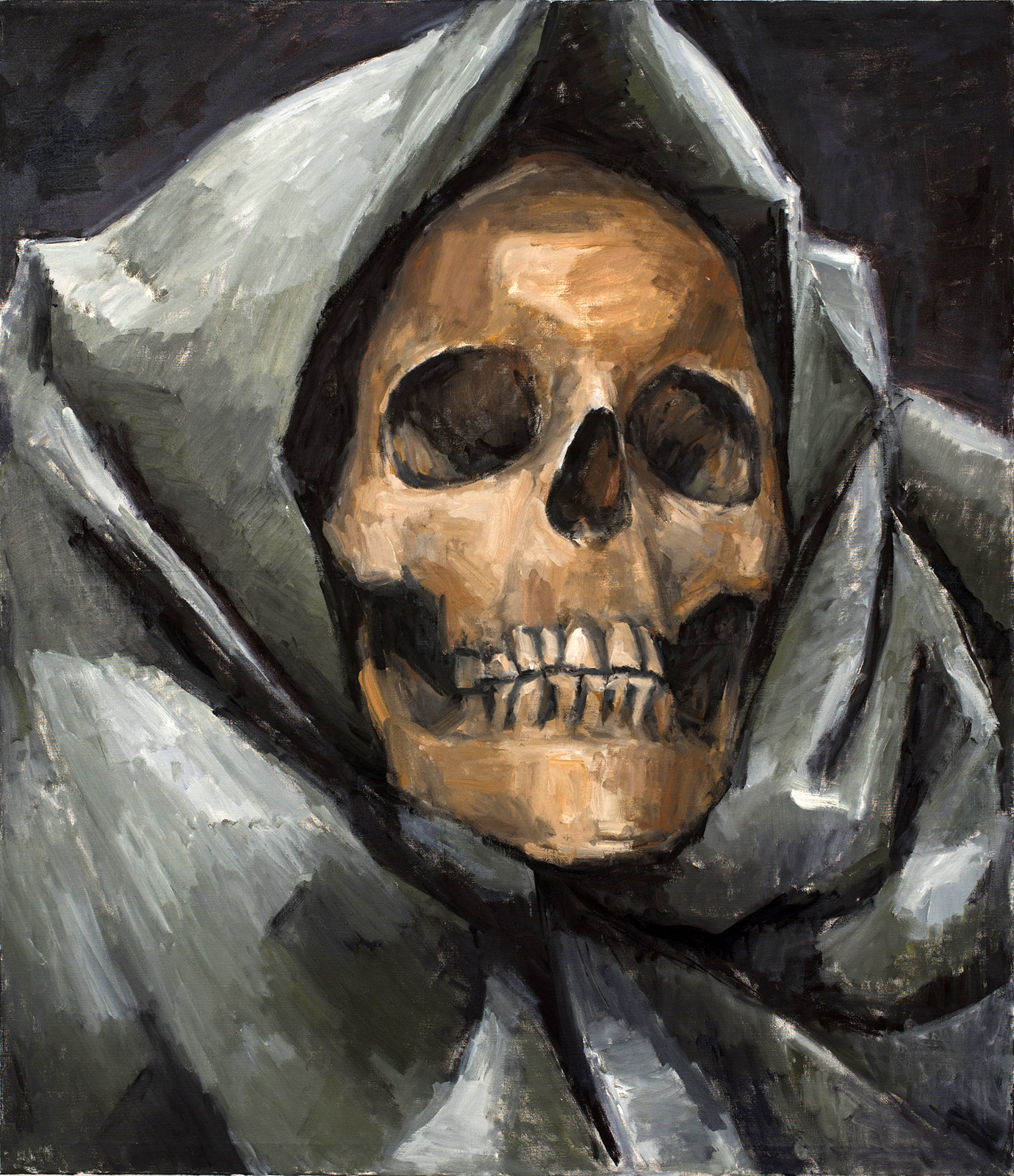 Josef Hnízdil, Veiled, 2010